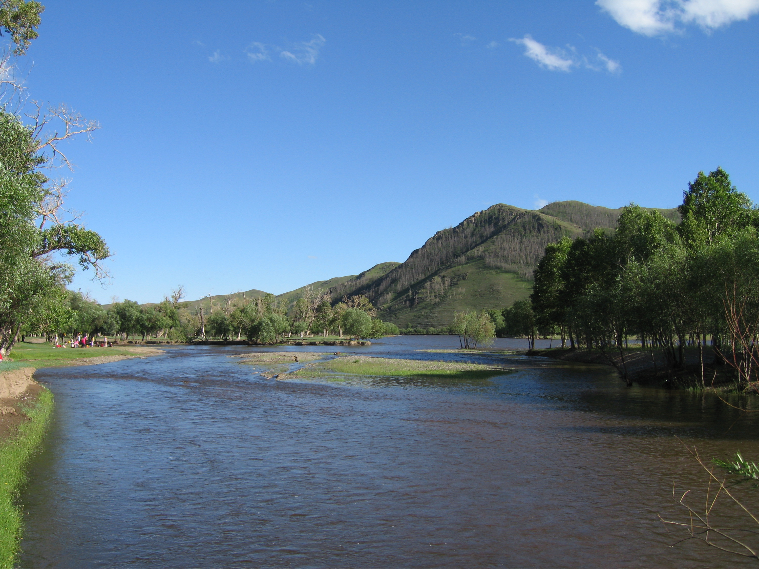 The Tuul River in Gorkhi-Terelj National Park, Mongolia, July 2006.